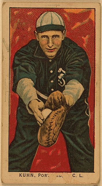 Walt "Red" Kuhn's baseball card from 1911 as a member of the Portland Beavers.